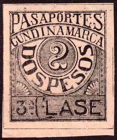 Cundinamarca 1899 Pasaportes (Passport Tax) stamp third class.